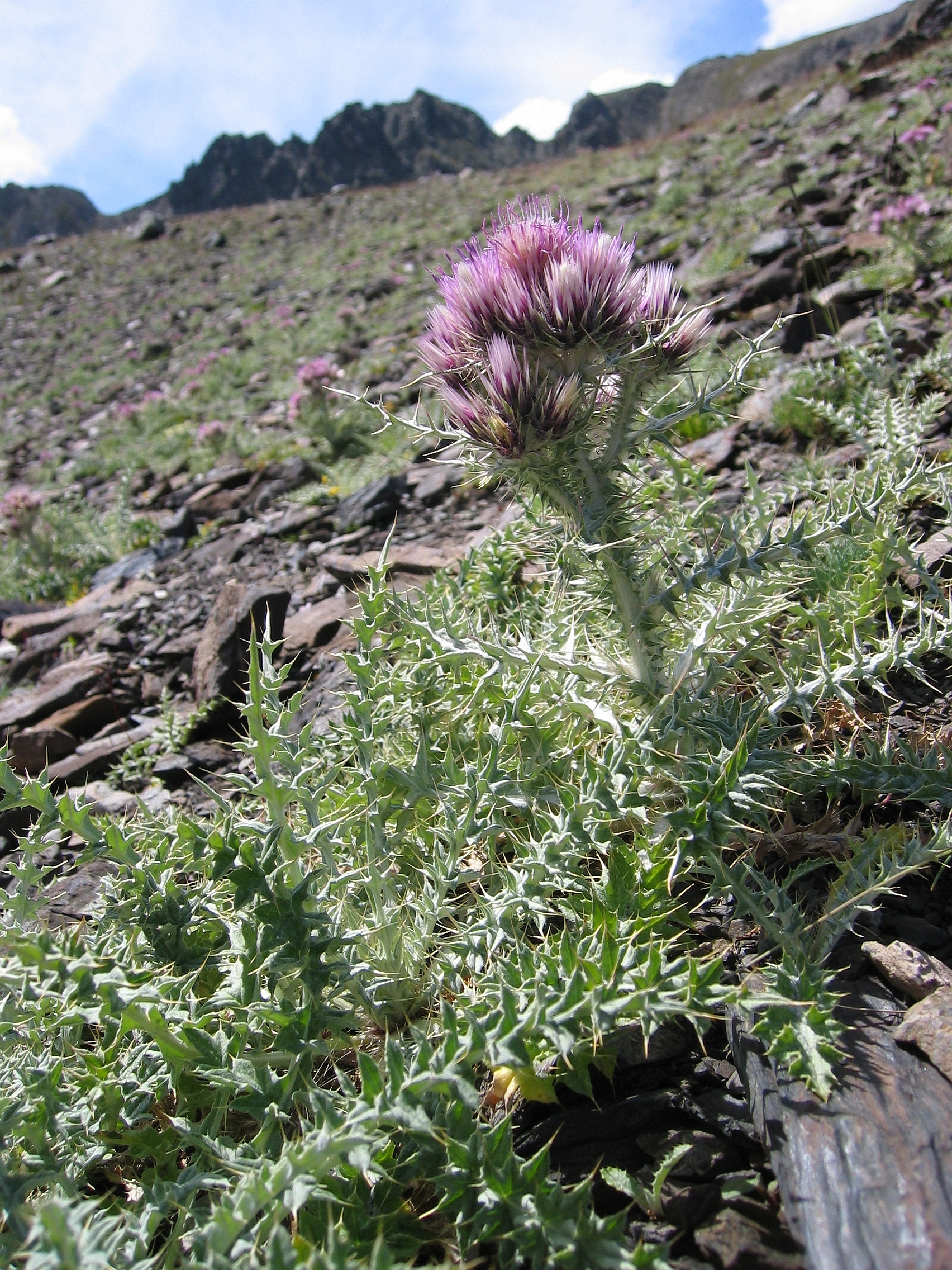 Carduus carlinoides, Near Pico Tebarray, Pyrenees, Spain